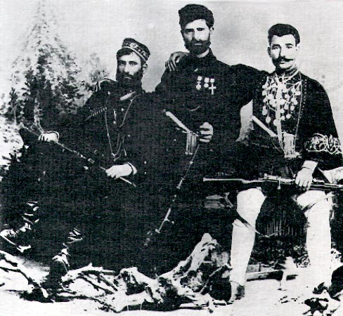 Greek andart captains from Crete Georgios Dikonymos-Makris, Ionnis Karavitis, Georgios Volanis